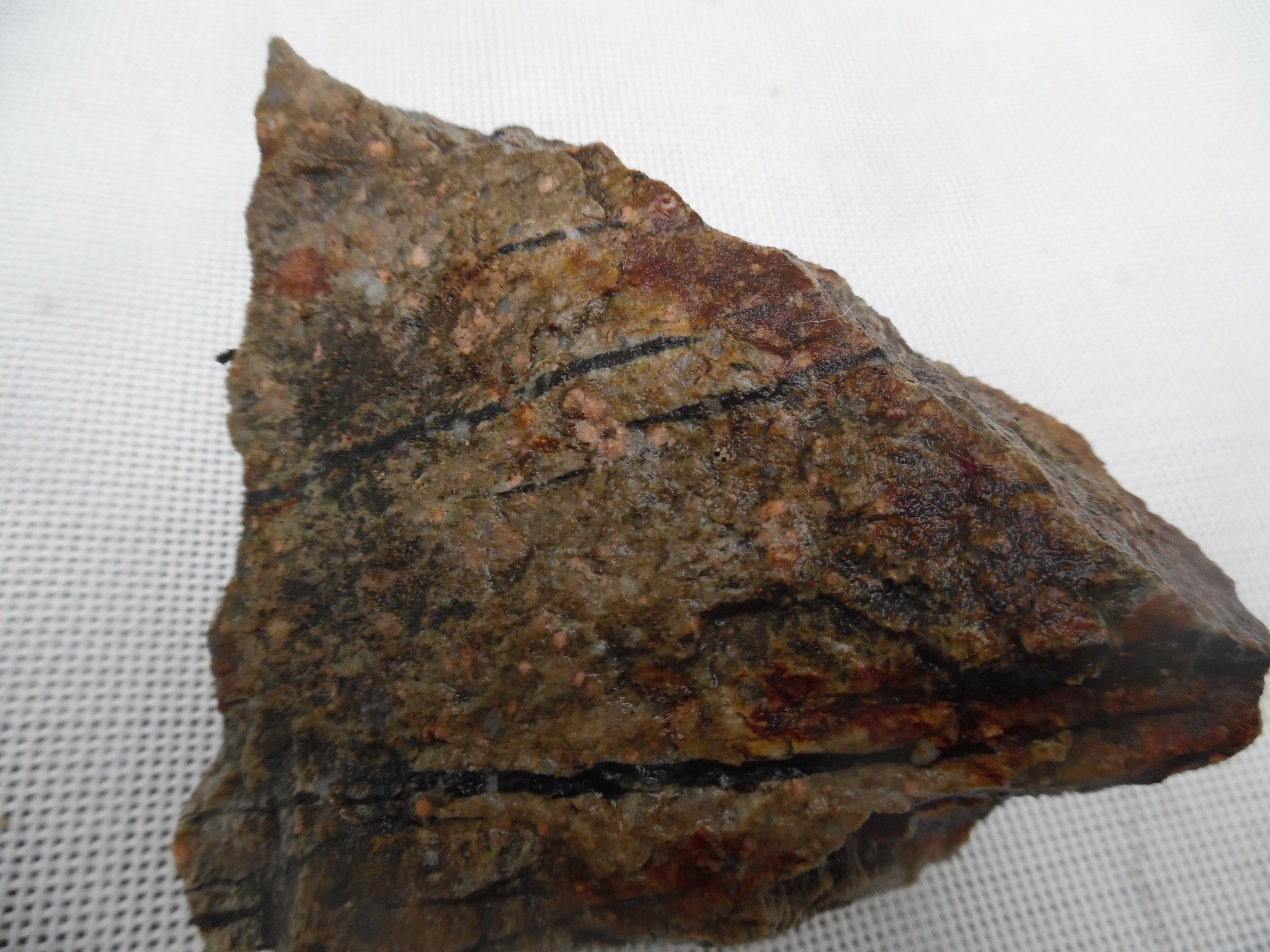 Lower Ordovician Génis porphyroid (metaignimbrite) from the Génis unit, northwestern Massif Central, France. Wet, weathered sample. The dark streaks are deformed ancient glass shards.